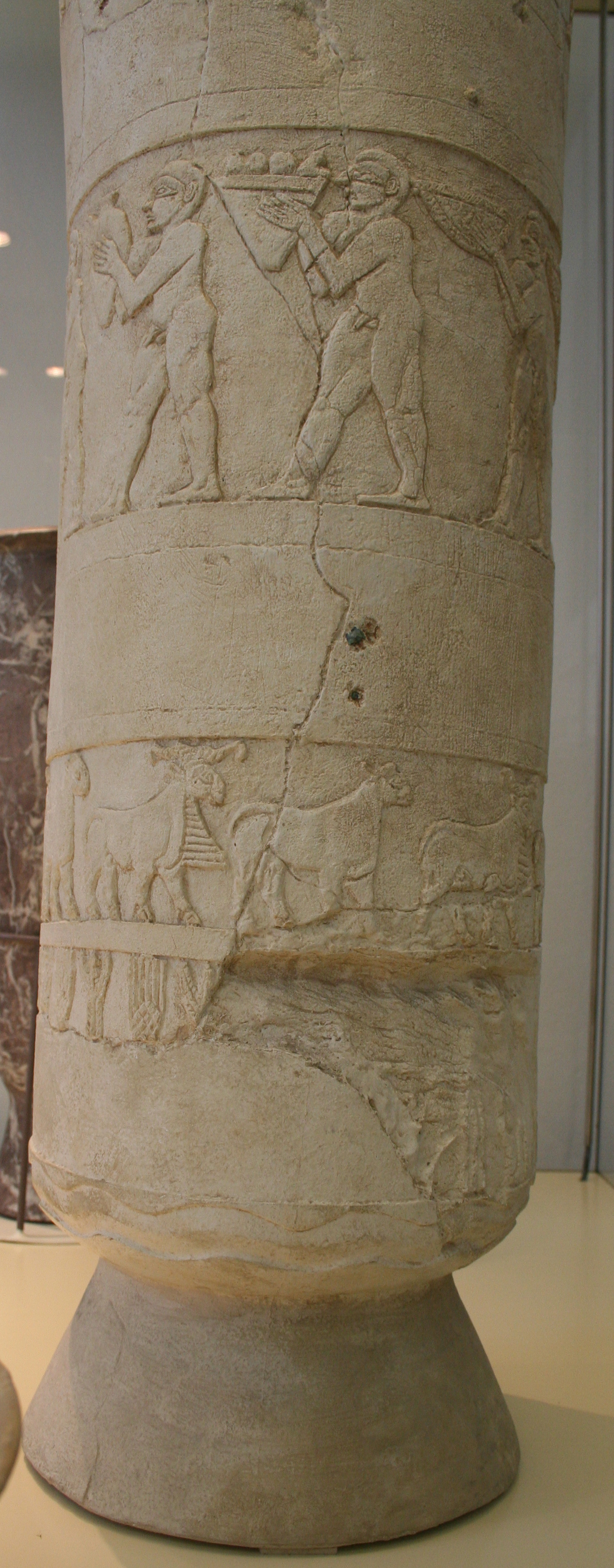 Vorderasiatisches Museum (Near East Museum), Berlin